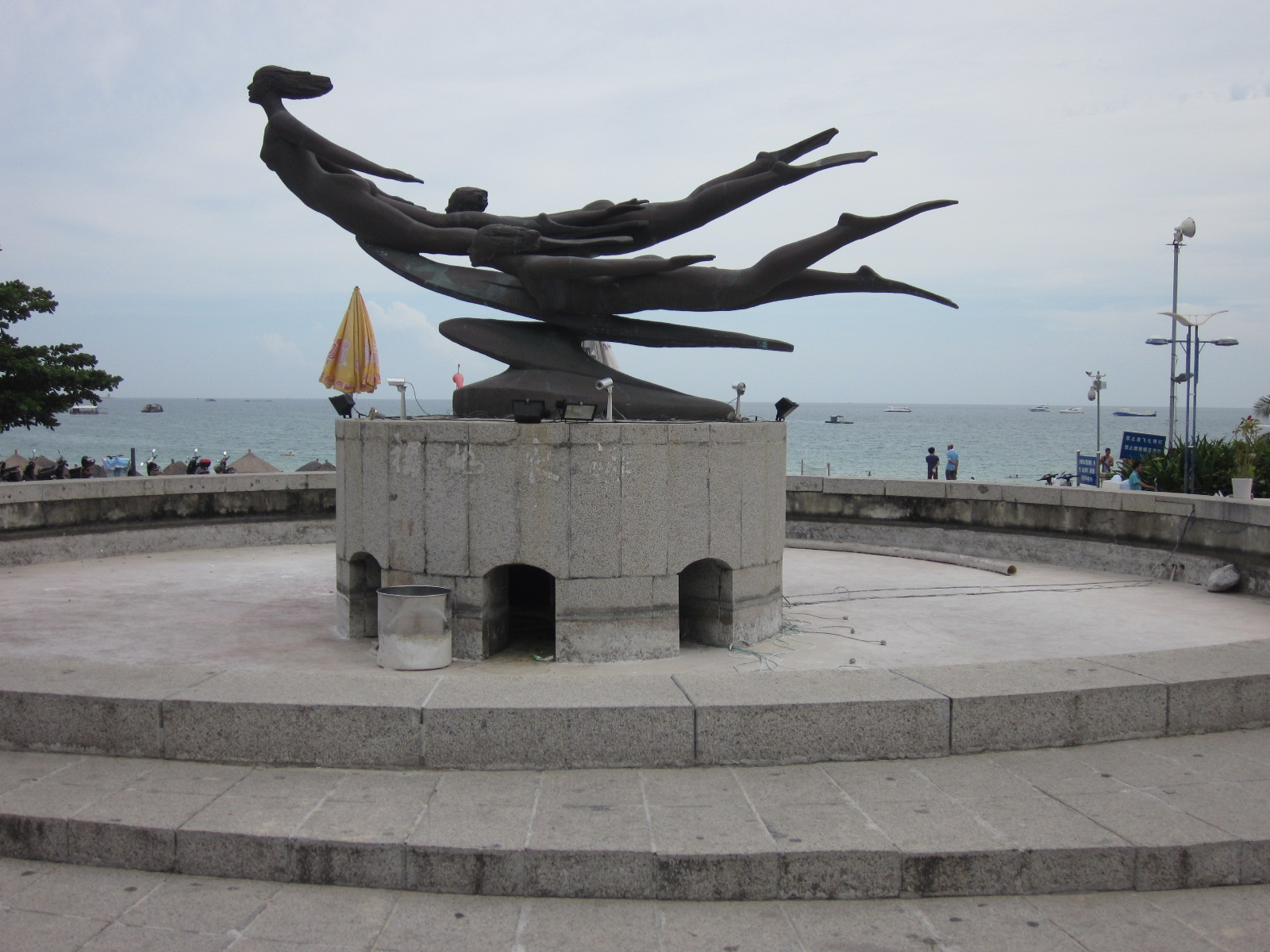 Dadonghai